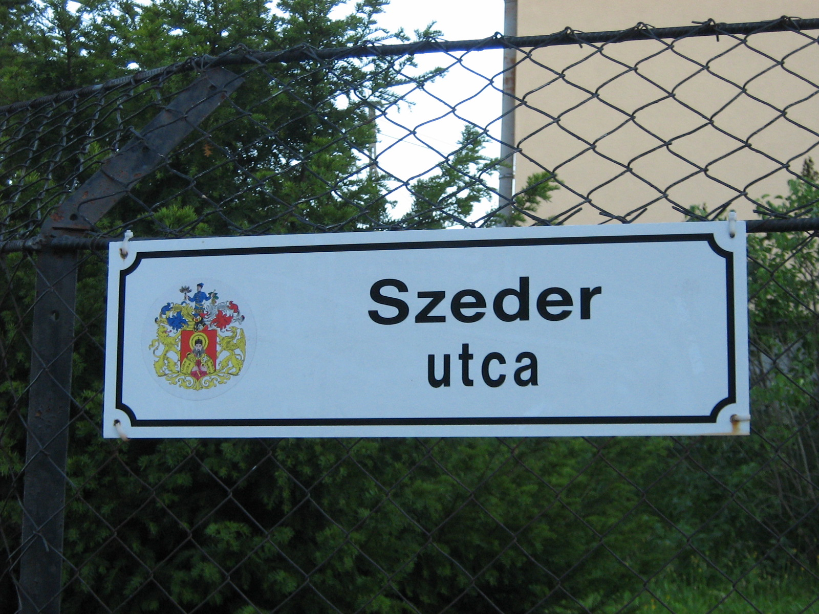 Street sign of Szeder street